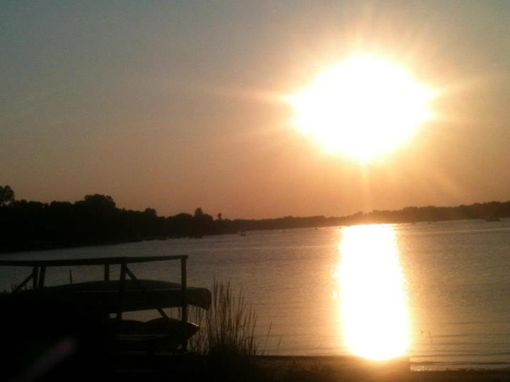 August 2012 picture looking west at setting sun over Crystal Lake lake in Illinois looking from Main Beach.